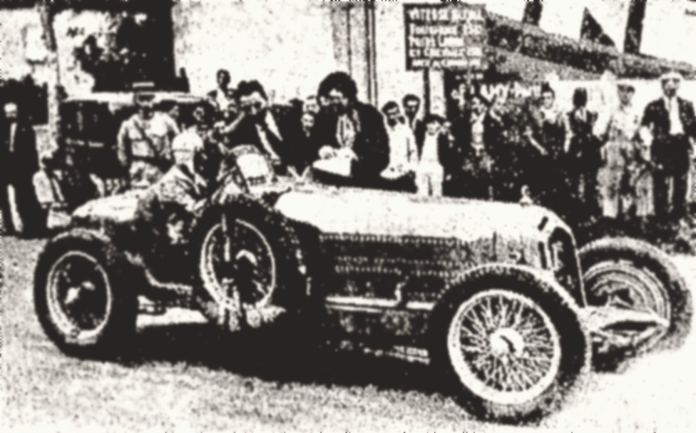 Hellé Nice and Alfa Romeo 8C Monza 2.3 litre in Grand Prix du Comminges 1934. Placed 8th